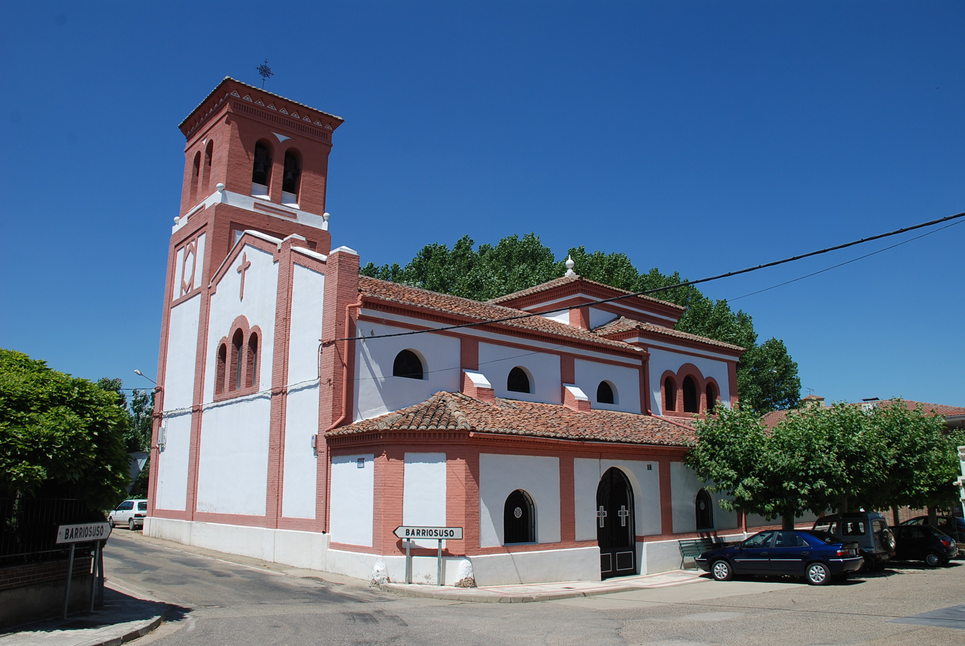 Church of Saint John the Baptist in Buenavista de Valdavia (Palencia, Castile and León).